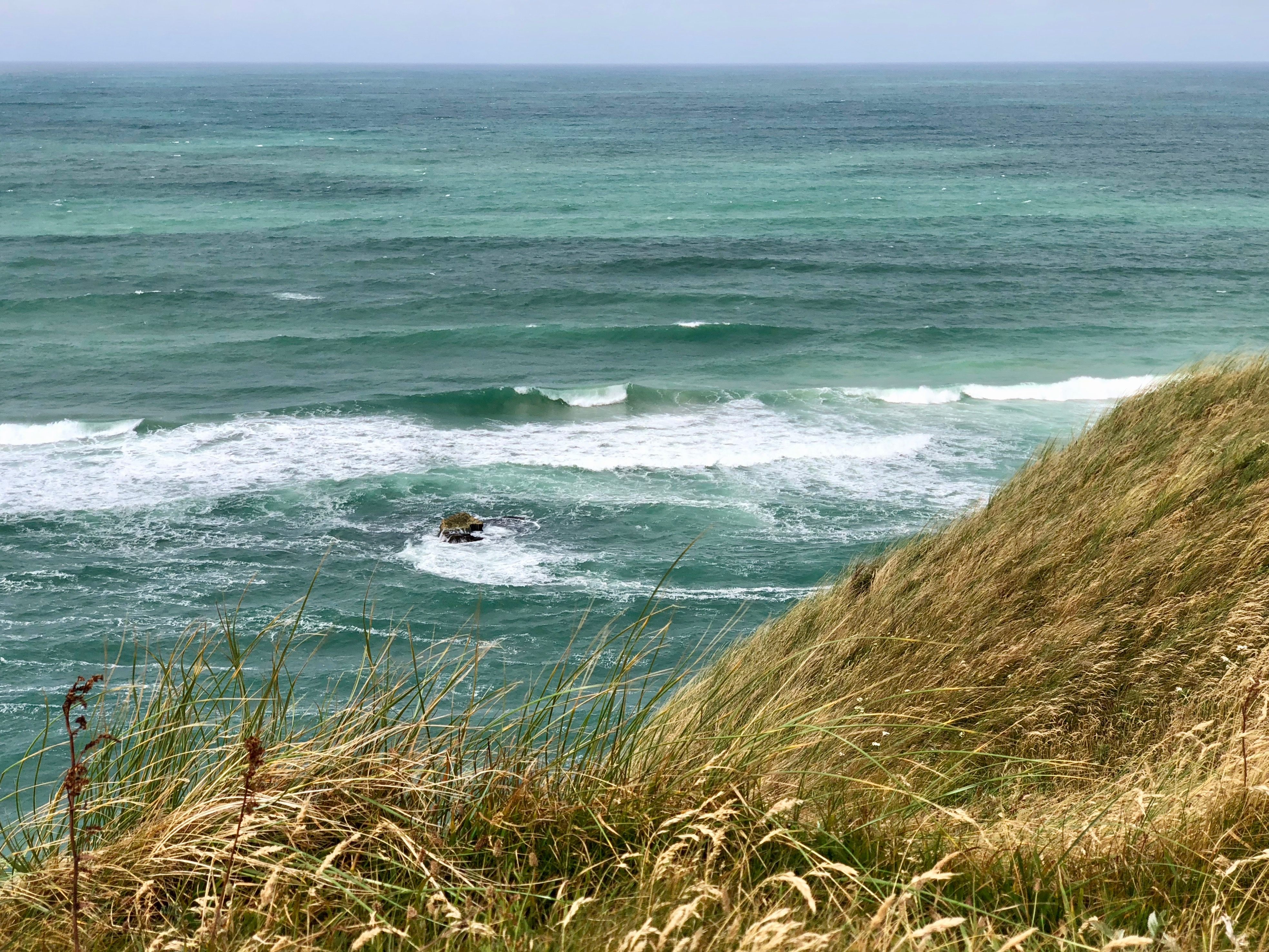 Skarreklit (Northwest Jutland) in July 2018